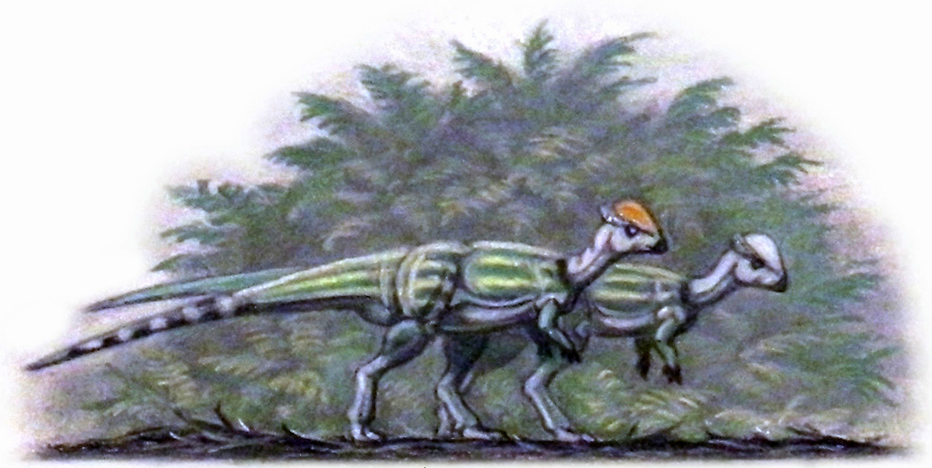 Stegoceras in environment.